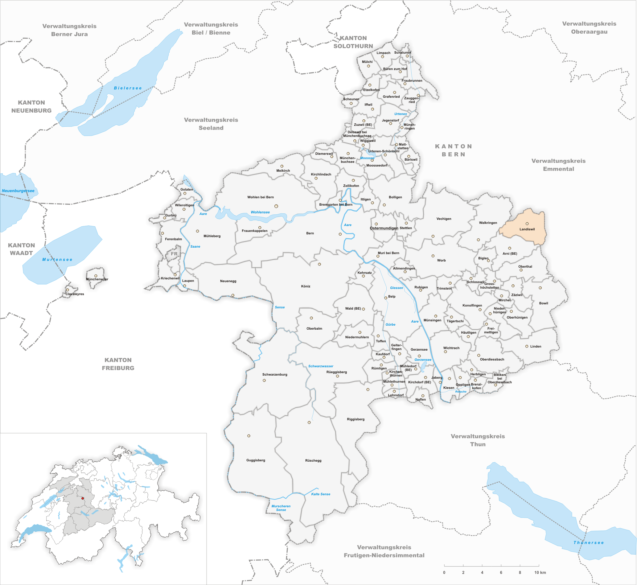 Municipality Landiswil